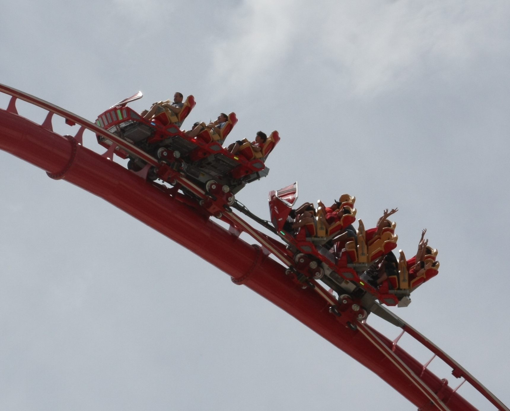 Train traversing the unique "non-inverting loop" element of Hollywood Rip Ride Rockit at Universal Studios Florida in Orlando